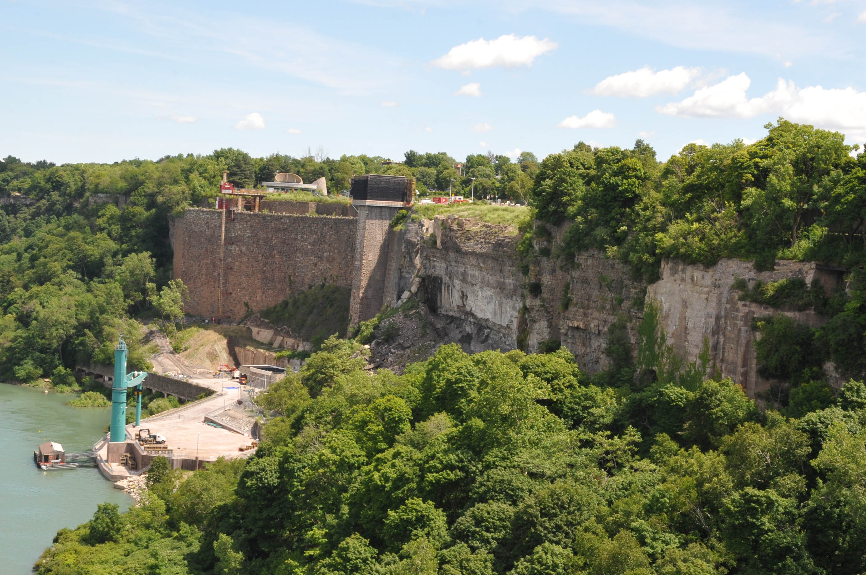 VIEW OF THE SCHOELLKOPF POWER STATION NO 3 SITE FROM THE MIDDLE OF RAINBOW BRIDGE; IN JUNE OF 1956 WATER SEEPED BEHIND THE POWER STATION AND THE WALL OF NIAGARA GORGE CAUSING 2 OF THE 3 STATIONS TO COLLAPSE INTO THE GORGE, THIS CAUSED LOSS OF 450,000 KILOWATTS OF POWER TO THE NEW YORK STATE POWER GRID. IT ALSO LED TO THE GOVERNMENT TAKING OVER THE POWER STATIONS AND THE END OF PRIVATE OWNERSHIP. TODAY THEY ARE DEVELOPING THE SITE BY RE-INSTALLING THE ELEVATOR TO THE BOTTOM AND OPEN THE SITE TO TOURISTS. THE WALL BEHIND 1 POWER PLANT IS STILL INTACT AND DEBRIS FROM THE OTHER TWO IS STILL SEEN AT THE BOTTOM OF THE GORGE.